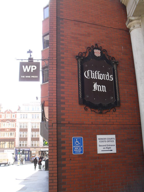 Cliffords Inn in Fetter Lane